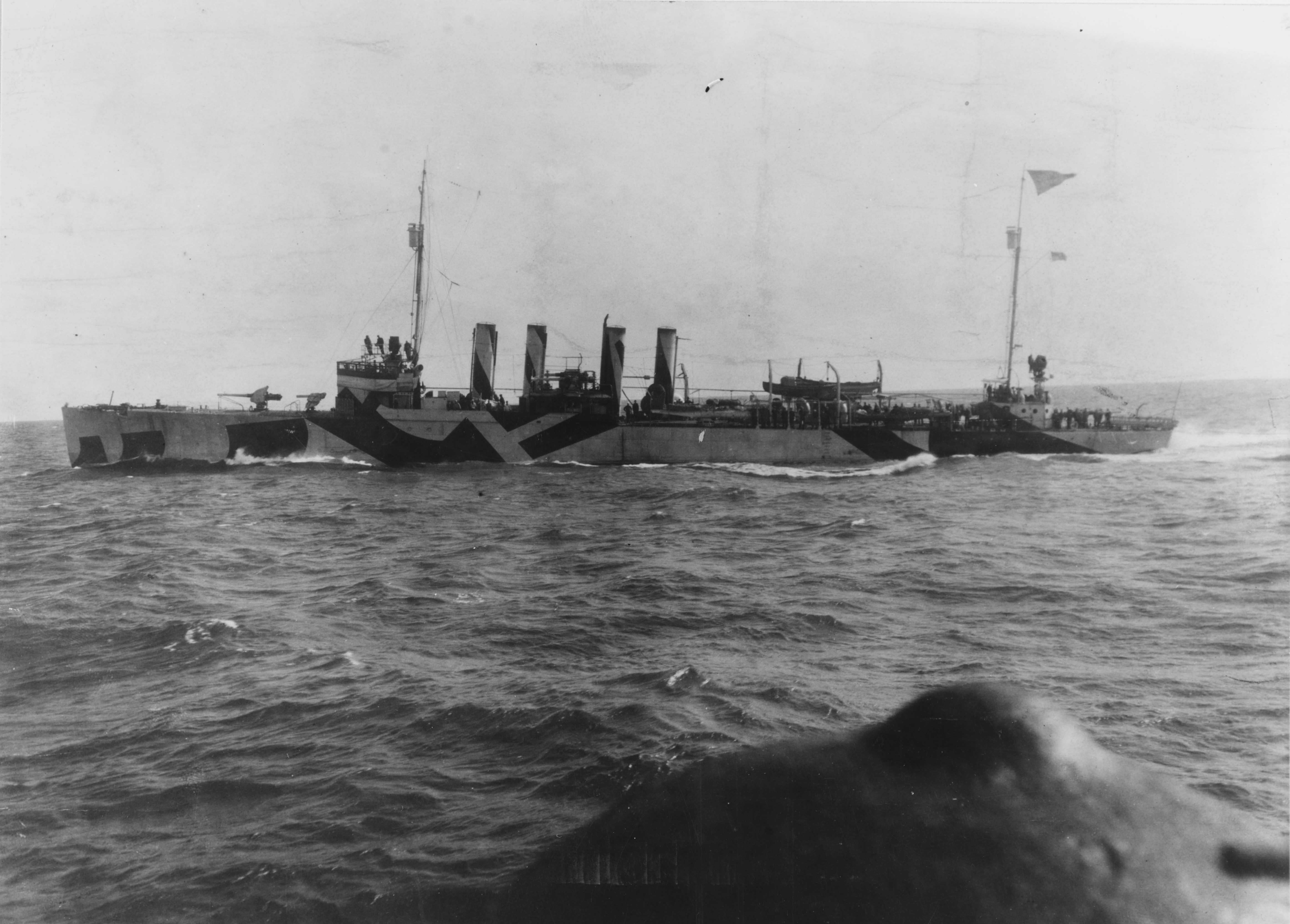 Photographed on 1 November 1918 by the Norfolk Navy Yard, Portsmouth, Virginia. Note her dazzle camouflage scheme. Photograph from the Bureau of Ships Collection in the U.S. National Archives.